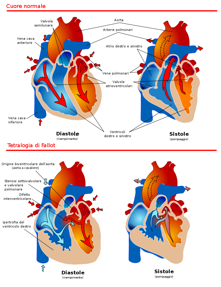 the diagram shows a healthy heart during pumping and filling.also a heart suffering from tetralogy of fallot. wich are 4 diferent malformations and are usually known as blue baby syndrom.